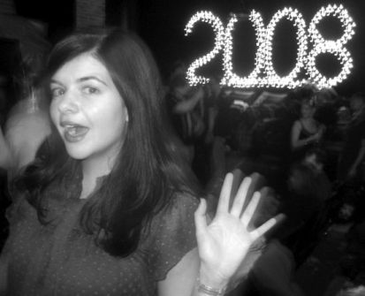 Casey Wilson in 2008